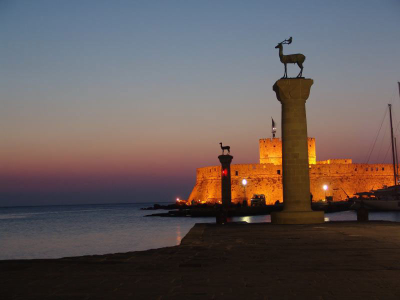 Sunrise at Rhodes (Rodos), Island of Rhodes, Greece. The columns mark the place of Colossus Rhodes.